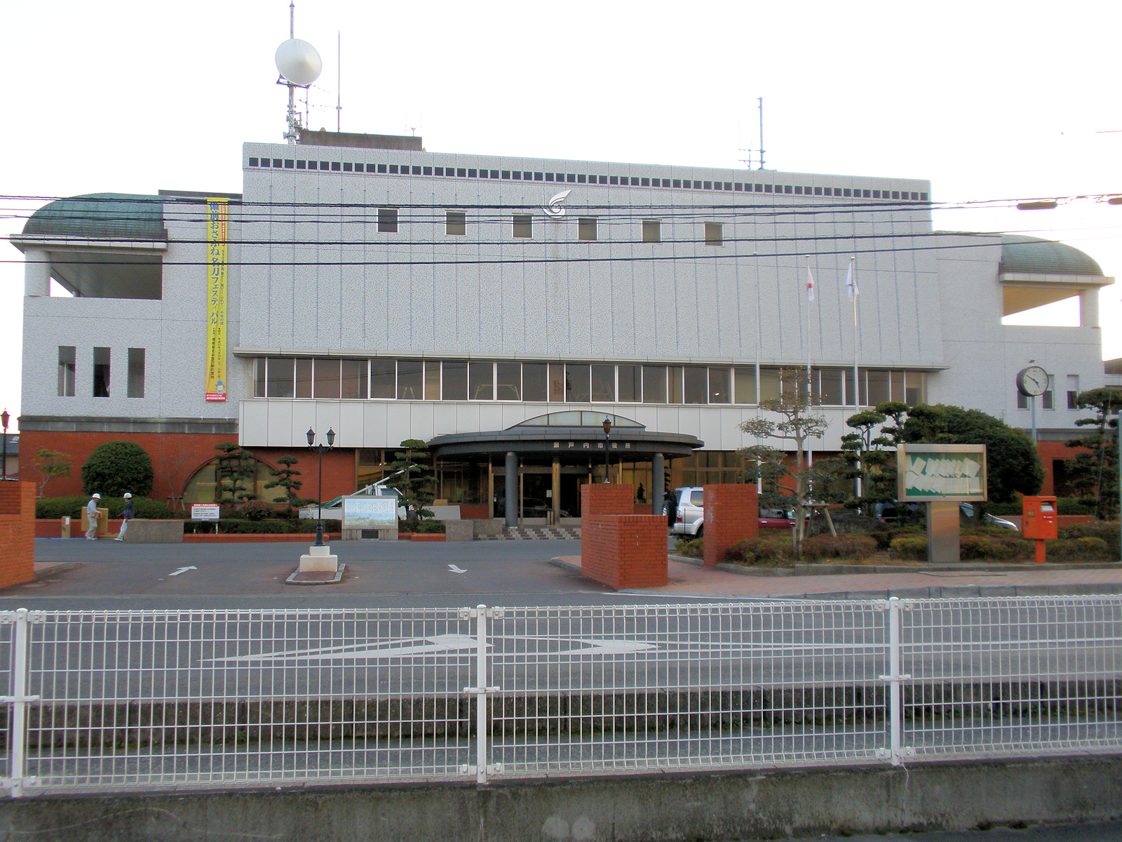 Setouchi city office Former Oku town office (1987.10 - 2004.10.31)